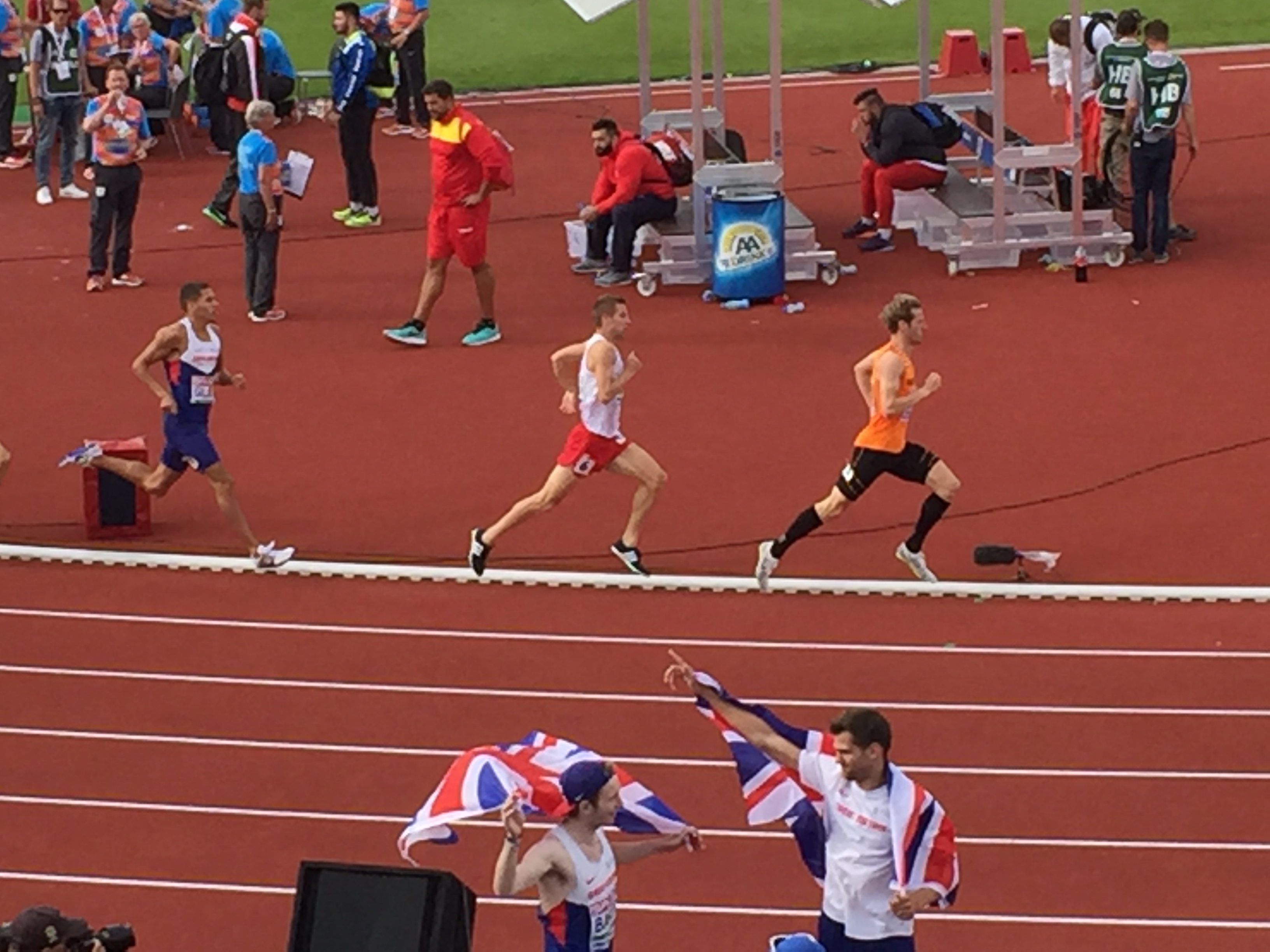 European Athletic Championships 2016 in Amsterdam - 10 July 2016 European Championships in Athletics (10 August) Schedule for this day: Finals: 17:00 High Jump M 17:05 400m Hurdles W 17:10 Hammer Throw M 17:15 3000m Steeplechase W 17:25 Triple Jump W 17:30 Shot Put M 17:35 4 x 100m W 17:45 1500m W 17:55 4 x 100m M 18:10 5000m M 18:30 800m M 18:40 4 x 400m W 18:50 4 x 400m M